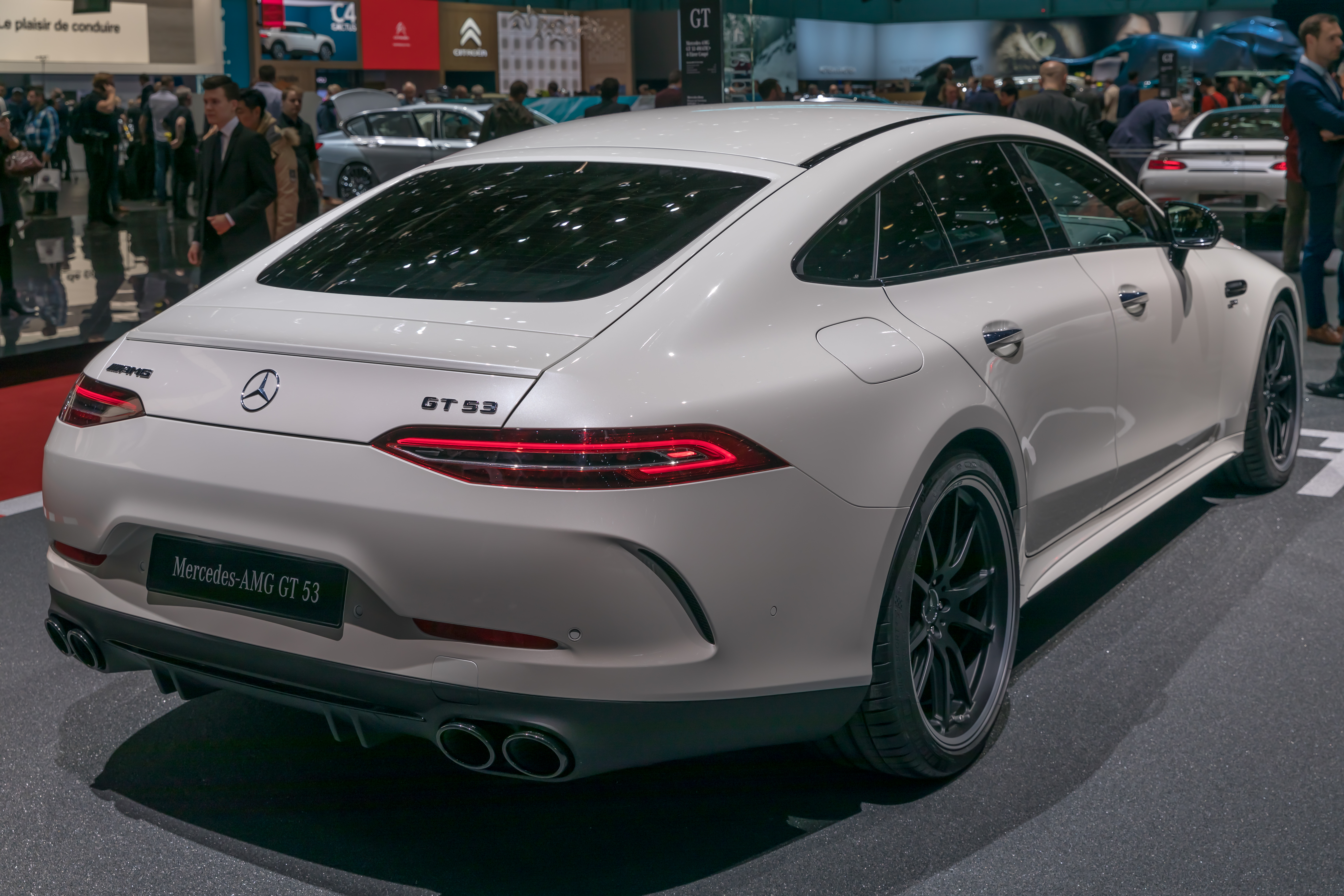 Geneva International Motor Show 2018